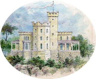 Alexander Jackson Davis, design for a Gothic villa, watercolor, 1850s. (Virginia Military Institute}